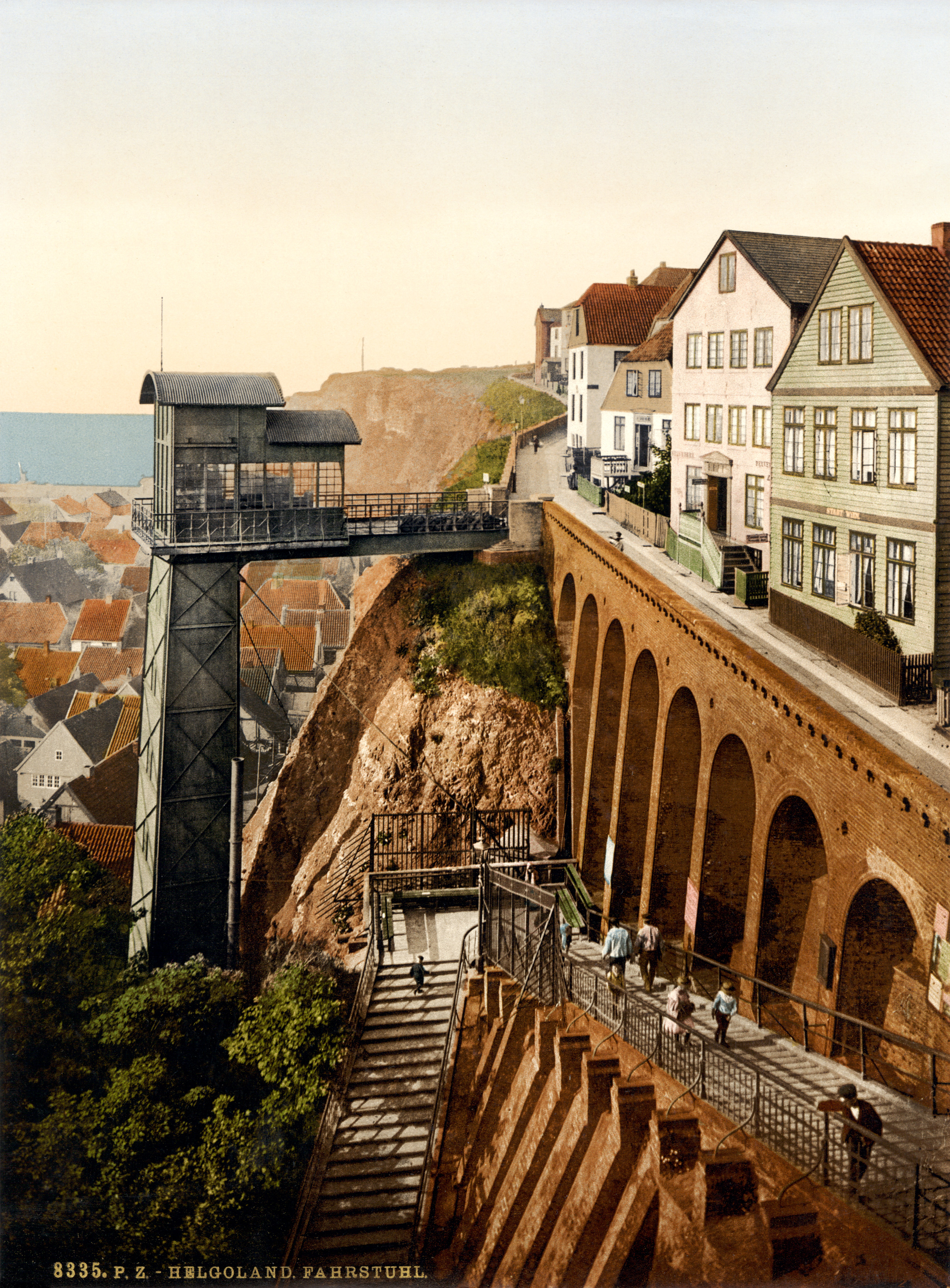 "The Lift", elevator and grand staircase, Heligoland, Fahrstuhl. 1 photomechanical print : photochrom, color.